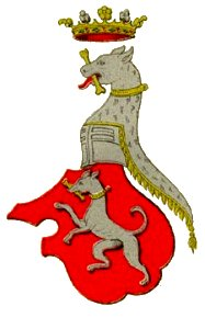 Coat of arms of the Canossa noble family.